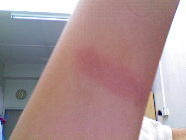 First-degree burn from cooking accident. Pic taken 19 hours after burn.